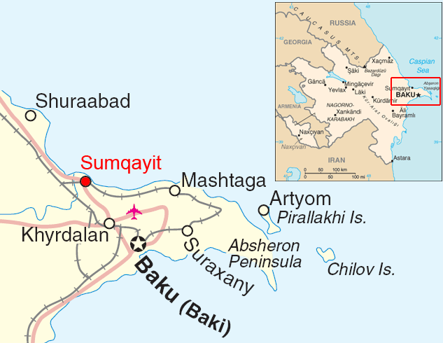 Map of Azerbaijan showing location of Sumqayit